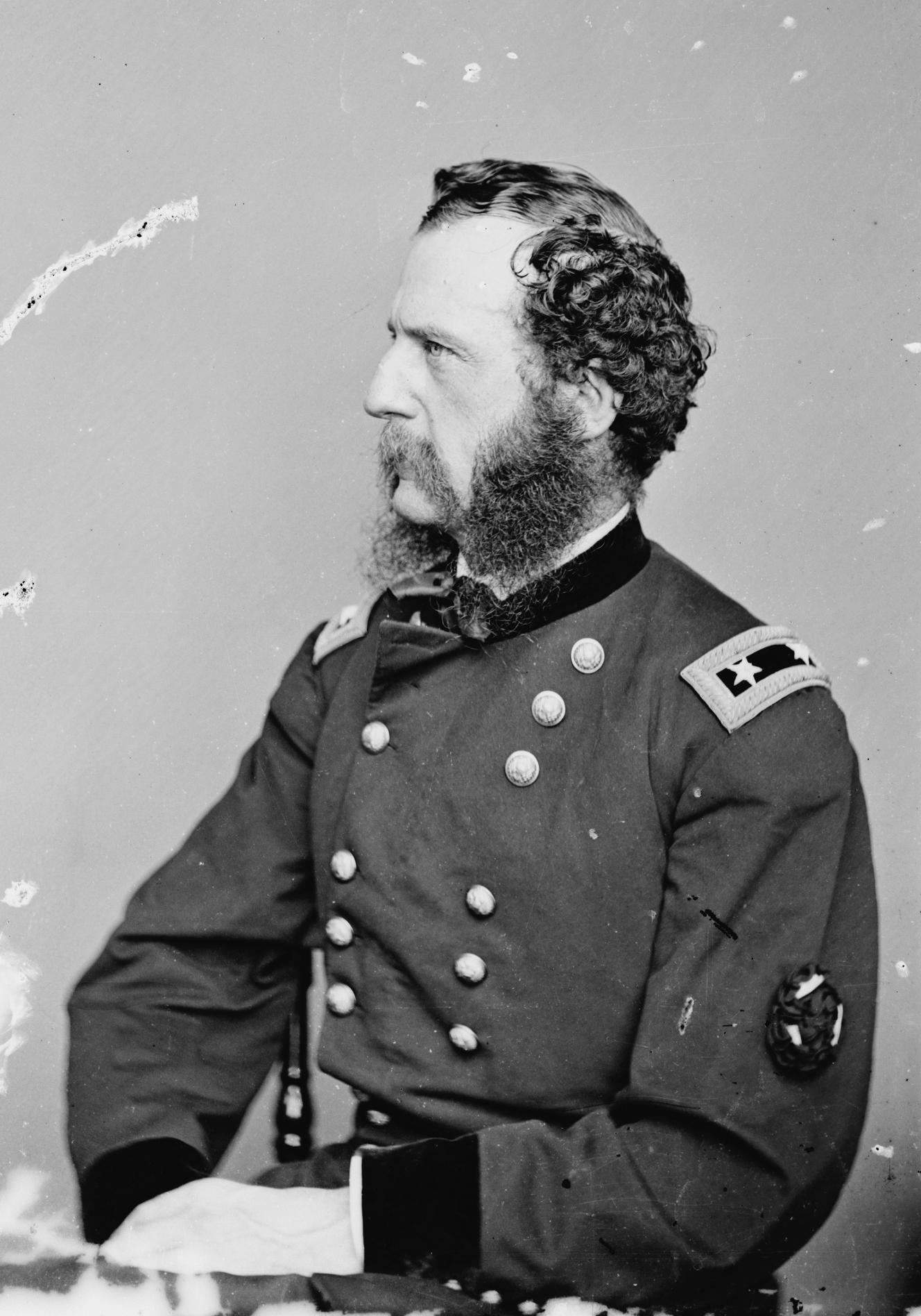 Samuel W. Crawford. Library of Congress description: "Gen. S.W. Crawford"